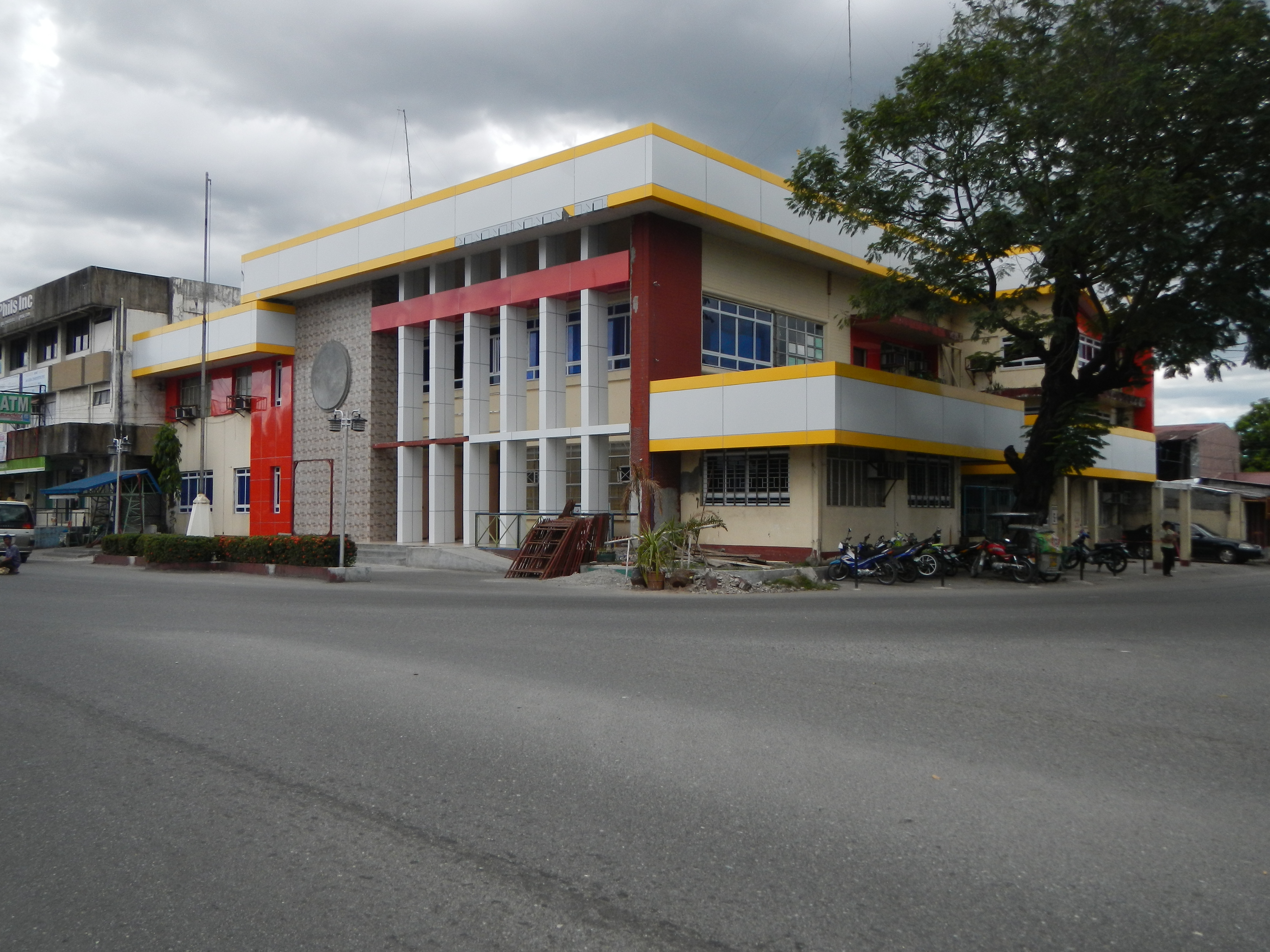 San Marcelino Municipal Hall San Marcelino - San Antonio National Road Latitude: 14°57'38.16" Longitude: 120°7'22.8" San Marcelino Plaza and Central Hall, Zambales Barangays Central, San Marcelino, Zambales 14.9801, 120.1536 Consuelo Sur, San Marcelino, Zambales 14.9875, 120.1486 San Isidro, San Marcelino, Zambales 14.9765, 120.1501 Linasin, San Marcelino, Zambales 14.9766, 120.1361 San Marcelino along Olongapo City Bugallon, Pangasinan San Marcelino National Highway (Olongapo-Bugallon Road) Olongapo-Bugallon Road 15°18'1"N 120°0'44"E bounded by Luna, San Antonio, Burgos, San Antonio to Rizal (Poblacion), San Antonio, Zambales San Antonio Plaza and Youth Center, Zambales San Antonio Commercial Center, Zambales List of barangays in Zambales Barangays Luna, San Antonio 14.9382, 120.0957 Burgos, San Antonio, Zambales 14.9398, 120.1252 Rizal, San Antonio, Zambales 14.9564, 120.0941 San Antonio, Zambales.